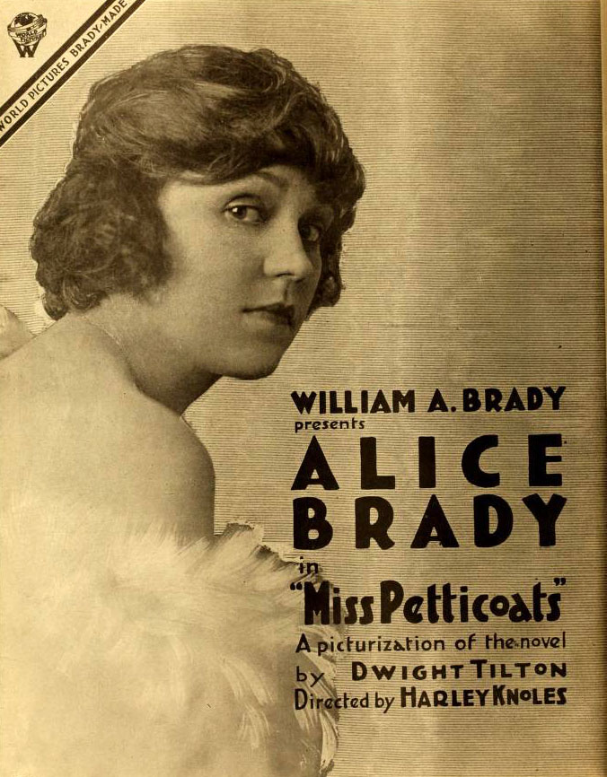 Advertisement in Moving Picture World for the American romantic drama film Miss Petticoats (1916).